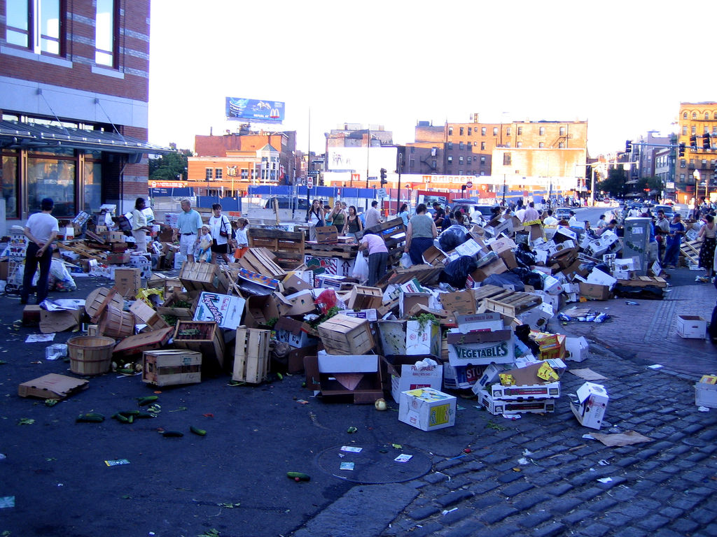 Down near Fanueil Hall on a Saturday evening, the mess after the farmer's market